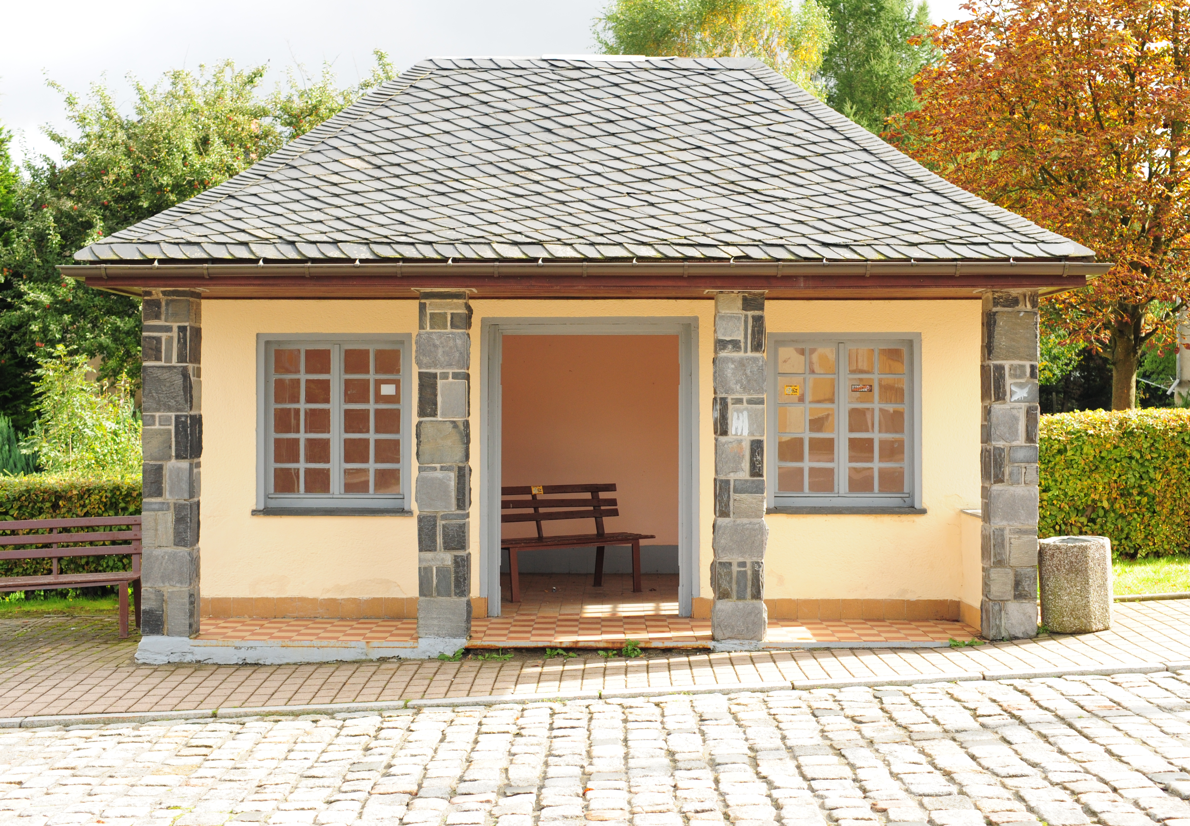 Werda / Vogtland, bus shelter, construction with slate (district Vogtlandkreis, Free State of Saxony, Germany)